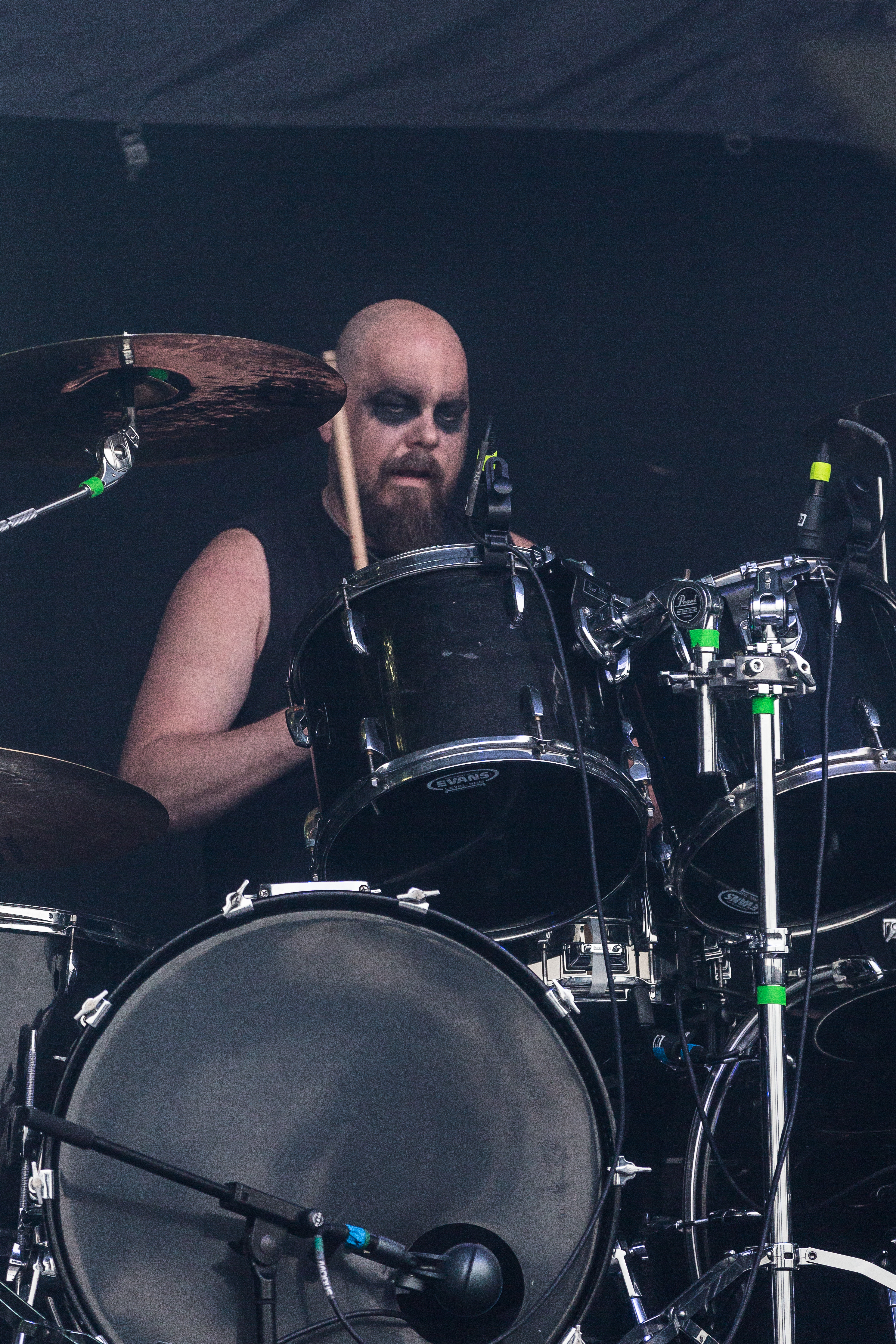 The Swedish death/black metal band Necrophobic at the Party.San Metal Open Air 2017 in Obermehler-Schlotheim/Germany.